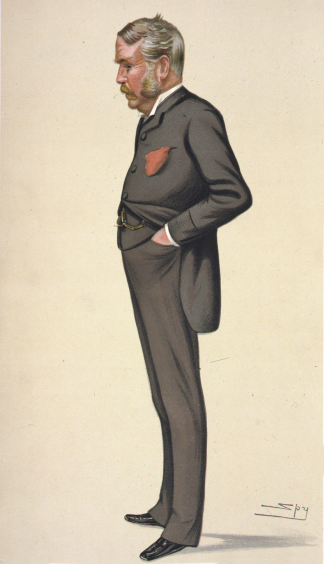 Caricature of W S Gilbert. Caption reads "Patience".